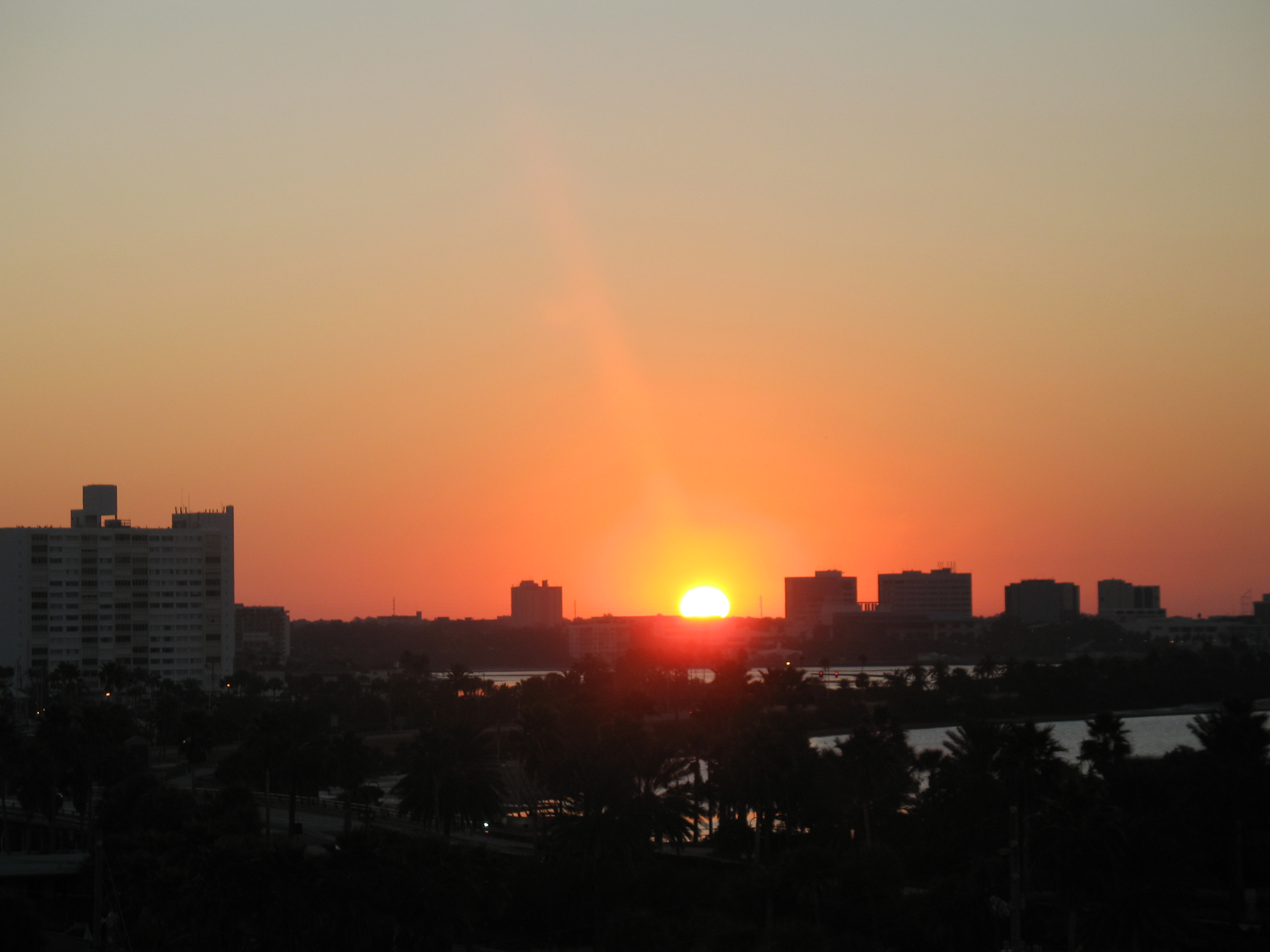 Clearwater at daybreak, as seen from Clearwater Beach